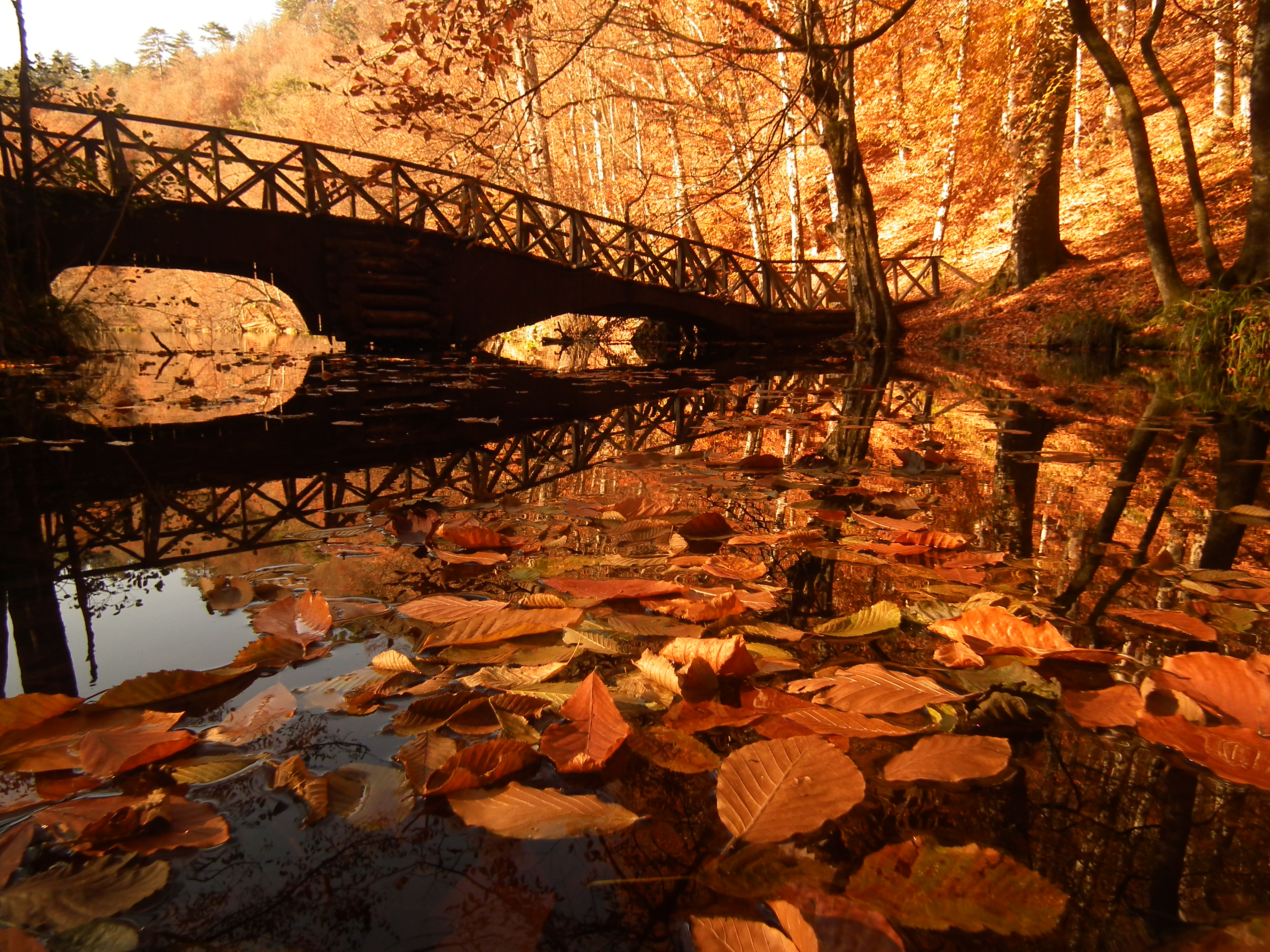 Bolu, Yedigoller National Park